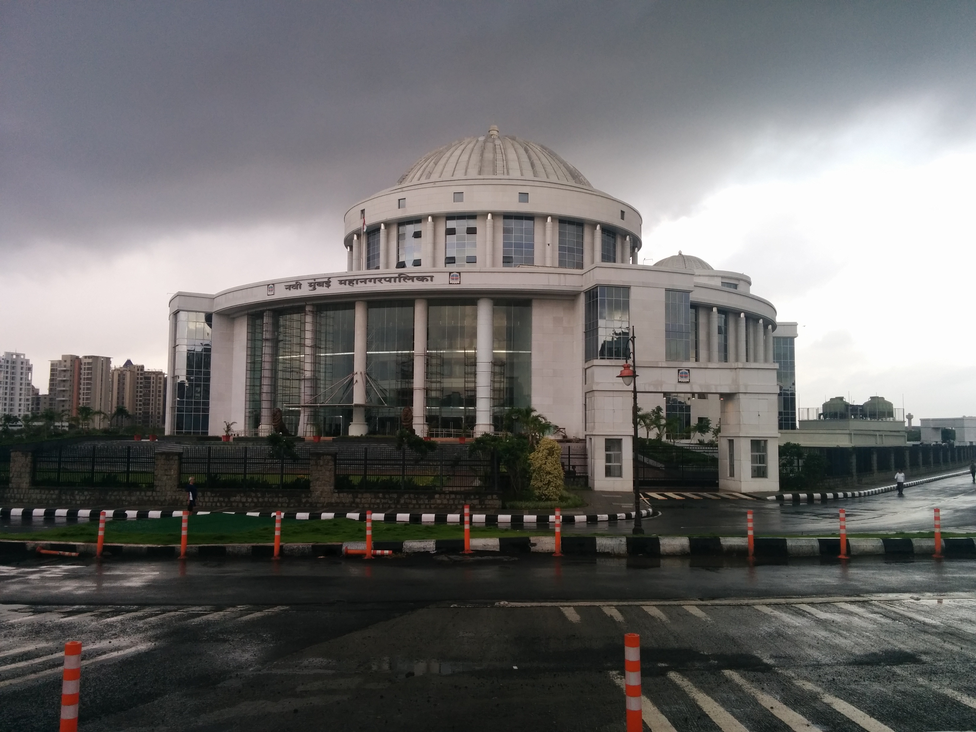 Building of Navi Mumbai Municipality Corporation